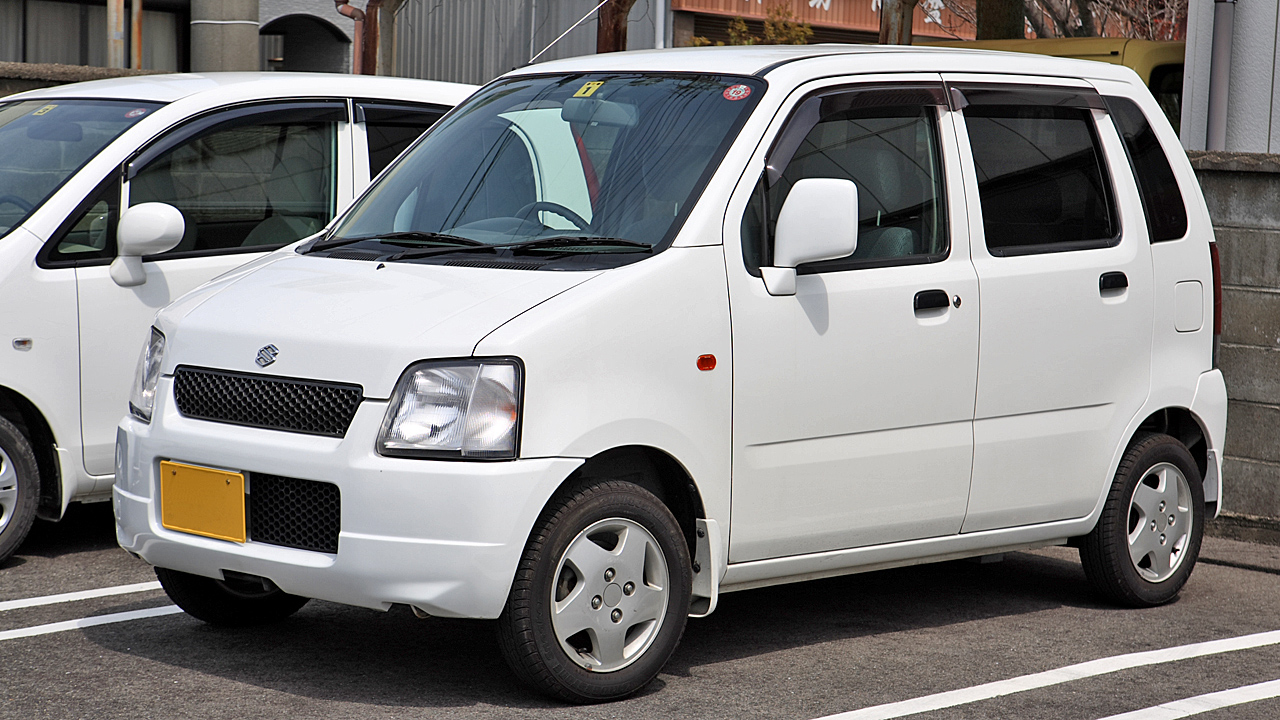 Second generation Suzuki Wagon R